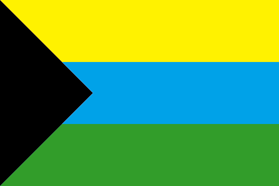 Flag of Lumbaqui